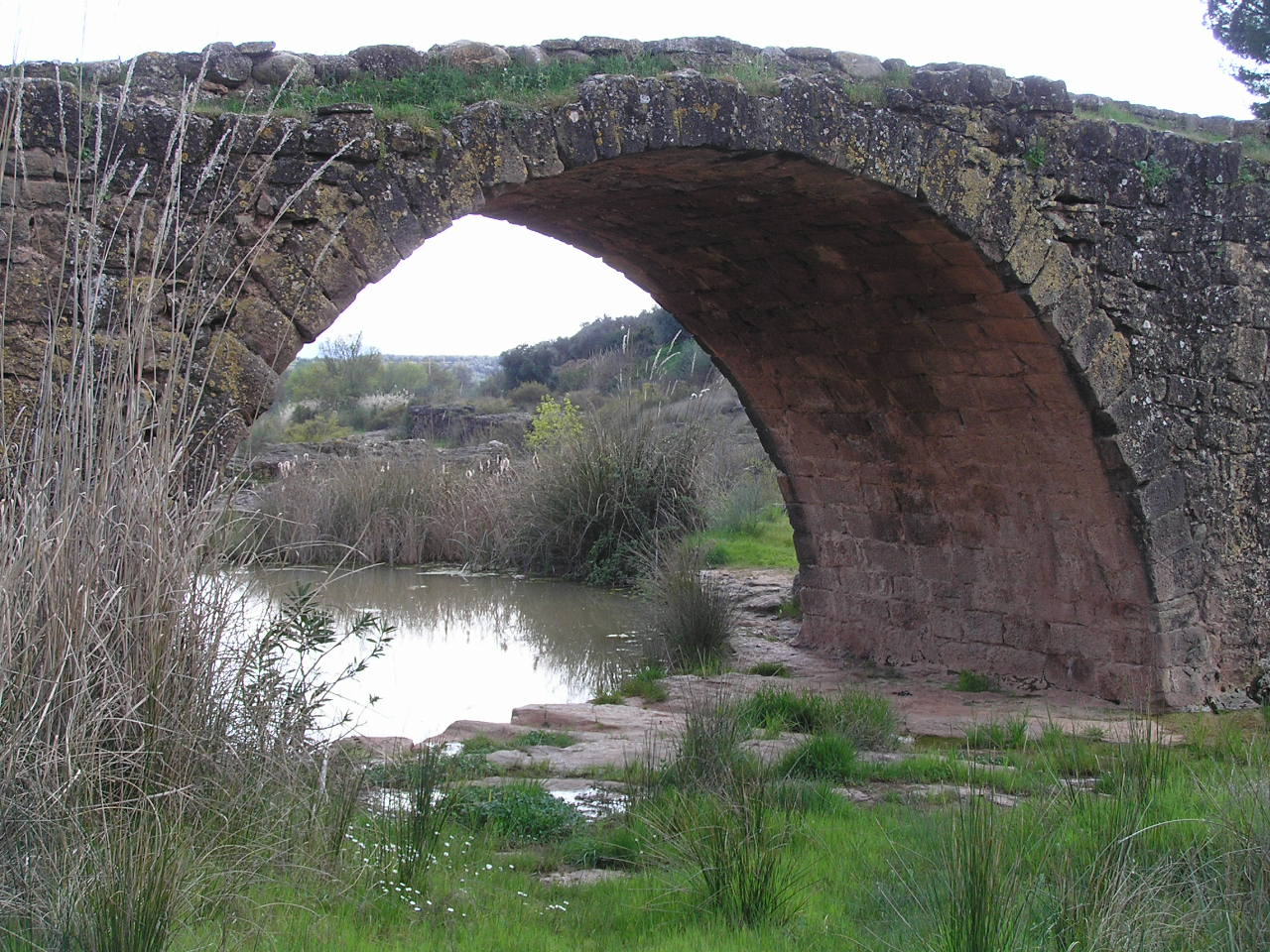 Uno de los ojos del puente Mocho